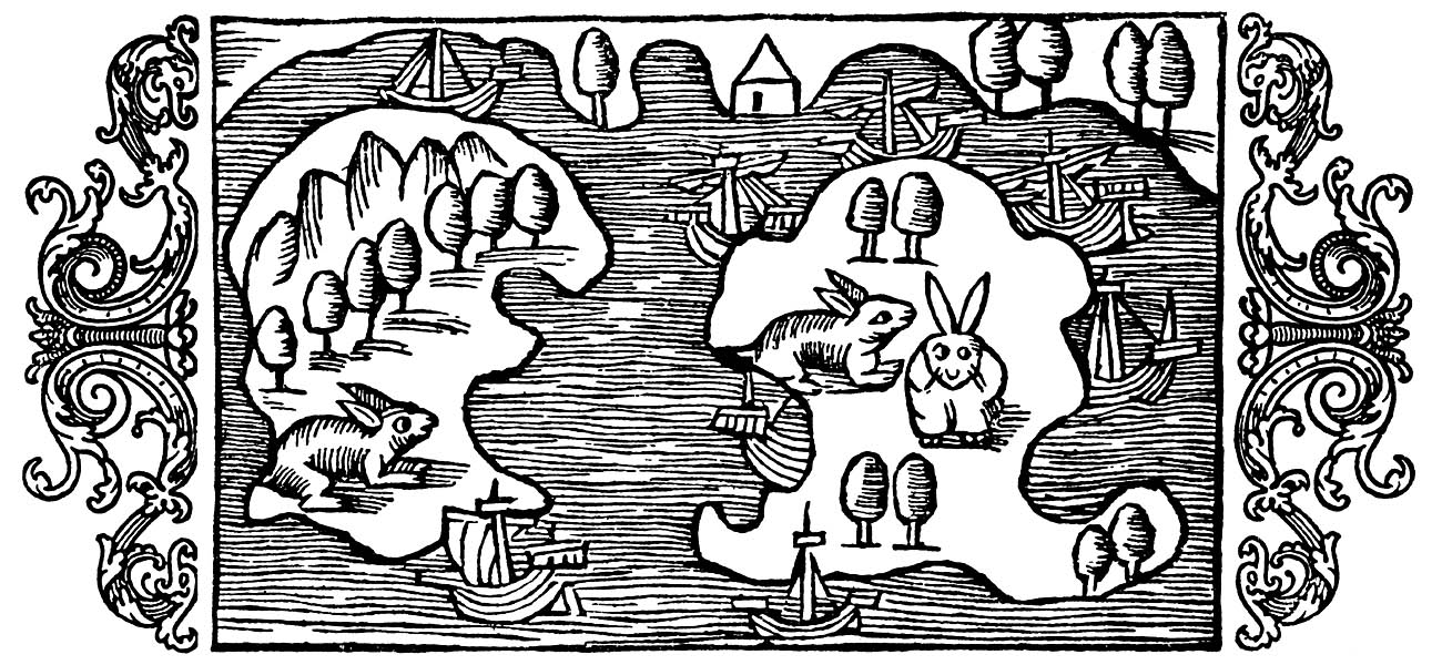 The woodcut shows a natural harbour in the archipelago outside Stockholm. This place has since the 16th Century been an anchorage for the Swedish Navy. To the left the island of Gubbholmen with five rocks that according to Olaus Magnus look like helmets. To the right the island of Älvsnabben with the cape of Jutnabben. At top Muskö. The animals are hares. Note that north is on the right side of this map, west at top and so on.